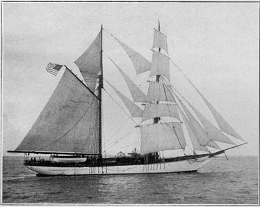 View of Carnegie under sail, on her first cruise